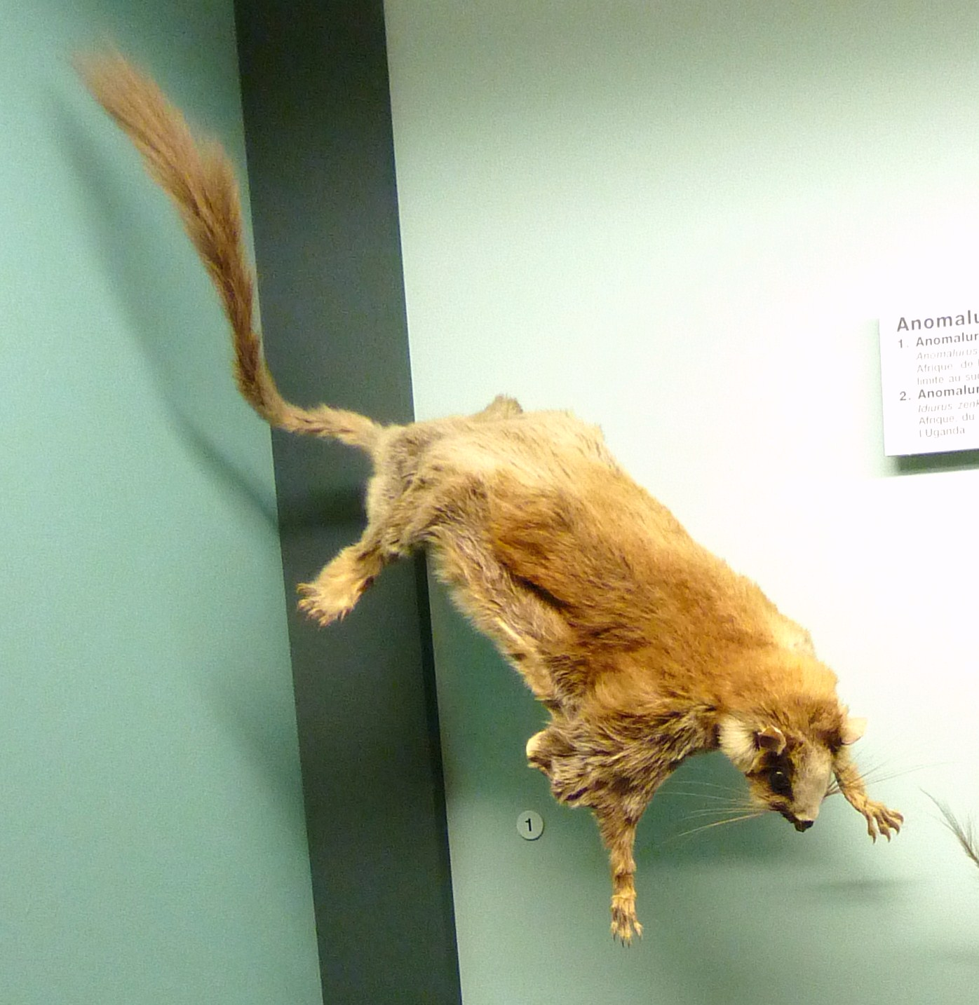 Lord Derby's Scaly-tailed Squirrel (Anomalurus derbianus)